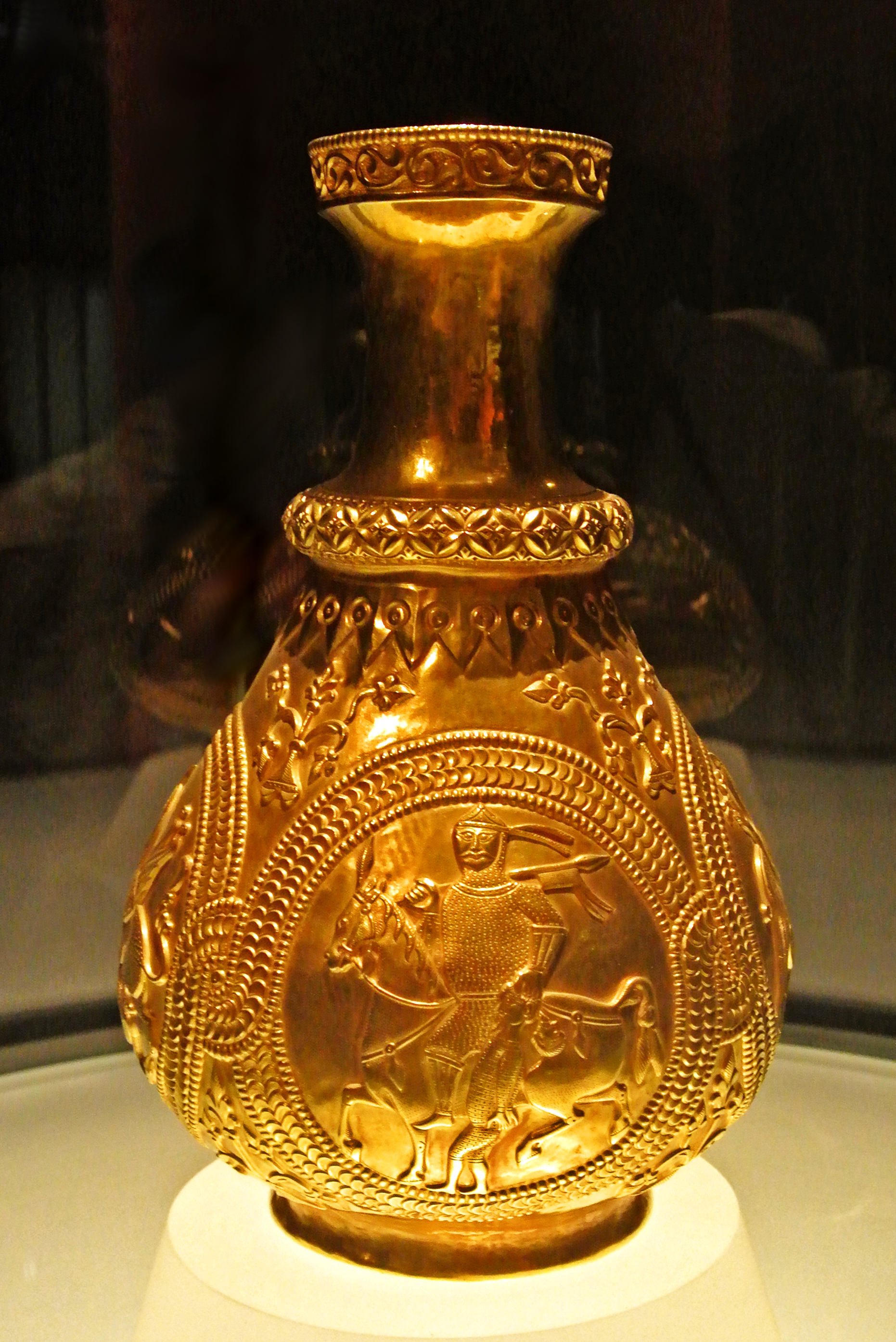 Probably the most well-known vessel from the Treasure of Nagyszentmiklós, this medallion ewer is of wrought gold in one piece with relief ornament carried out in the chased repoussé technique. The four medallions framed with ornamental ribbons present figurative scenes. Shown here: a warrior in armor leads a prisoner by his hair, while the severed head of an enemy hangs from his saddle. Like the other vessels found in this hoard, this medallion ewer was originally designed as a bottle and was later adapted with a handle. Remnants of the handle are still to be found on the ewer's mouth and corpus.